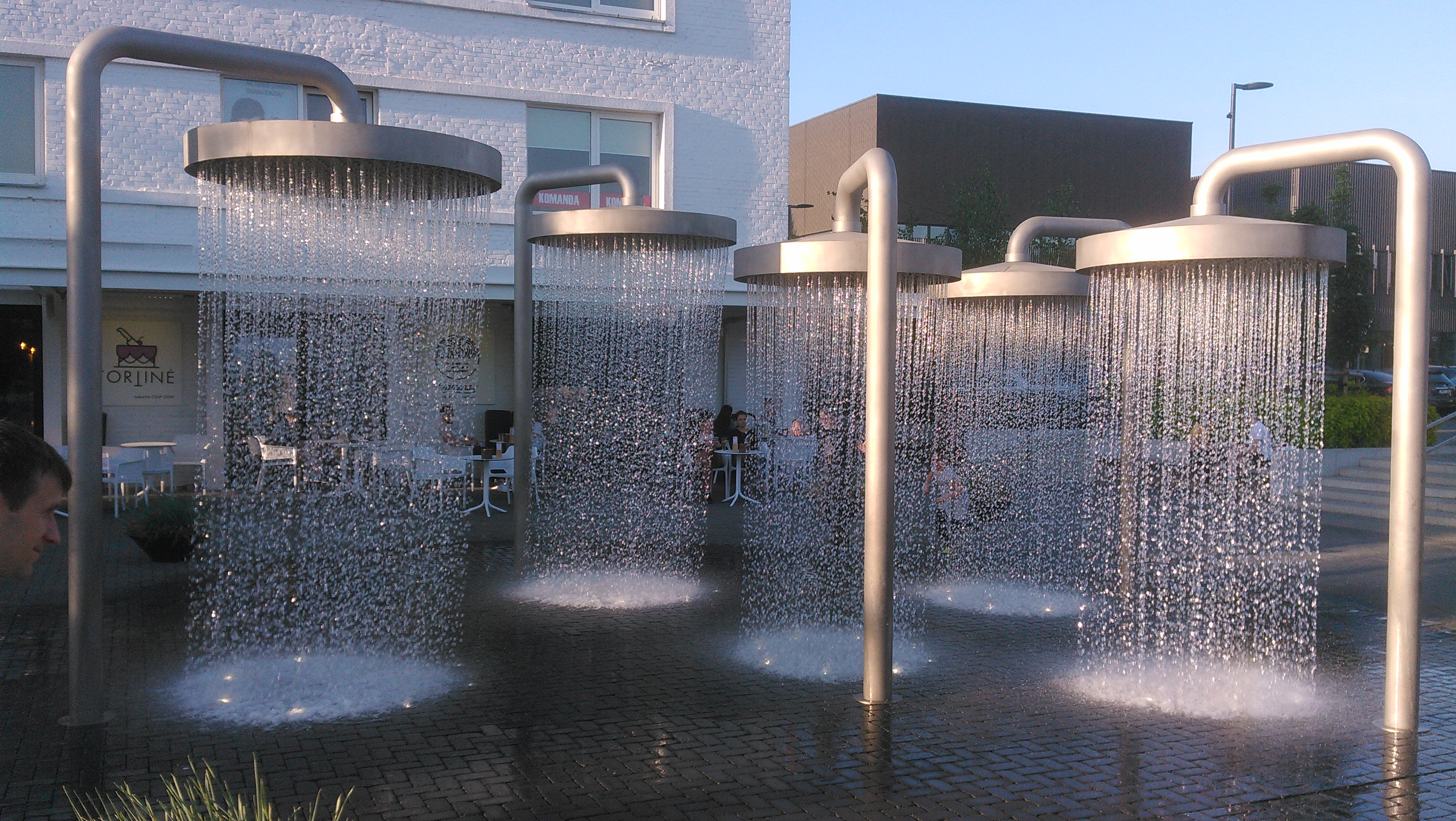 The fountain Family Shower in the North Town, Vilnius, Lithuania